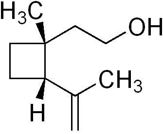 chemical structure of grandisol